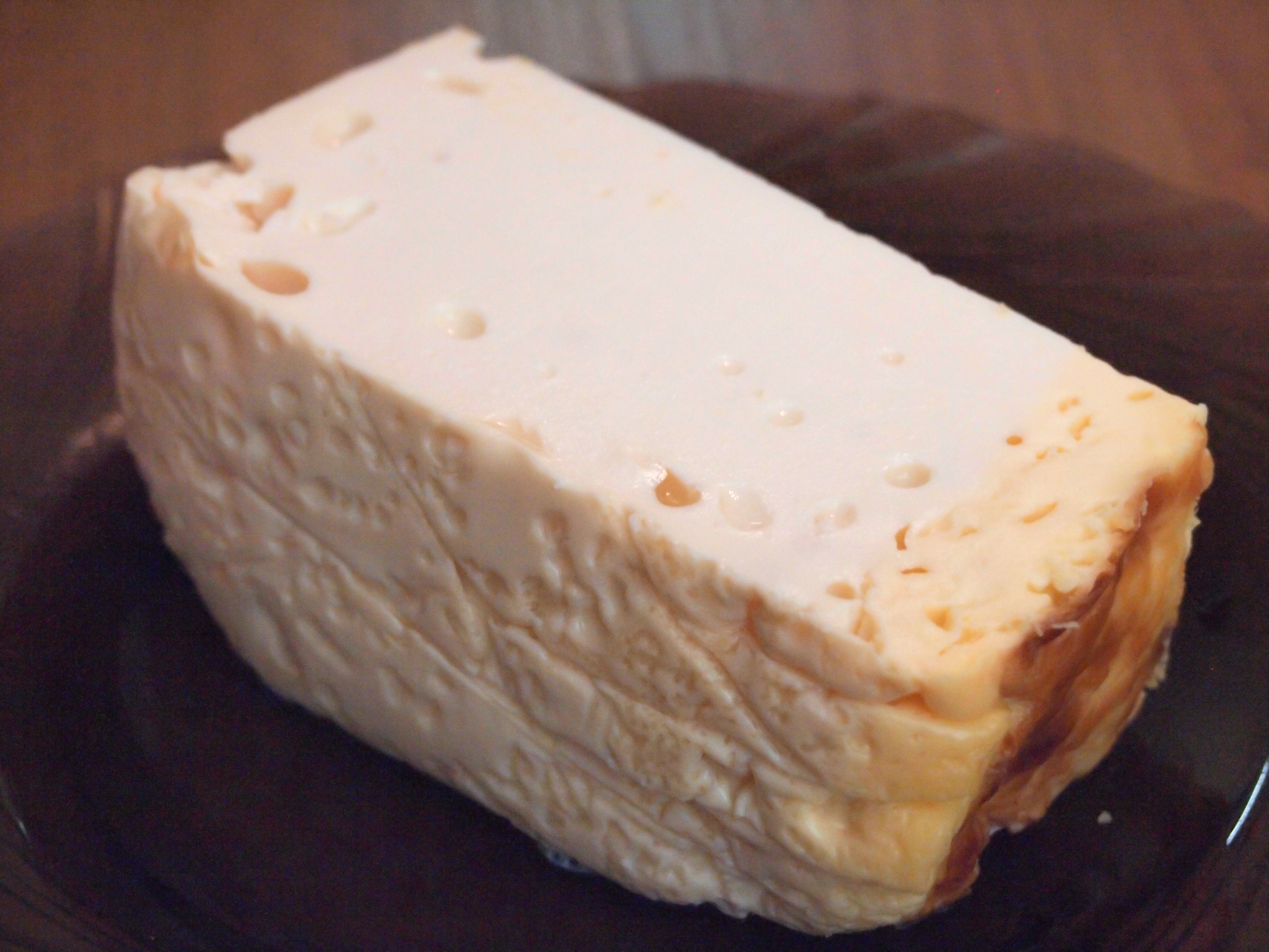 Molozyvo – cooked cow colostrum. It is a traditional dish of Ukrainian cuisine. It tastes like a tender sweet cheese.